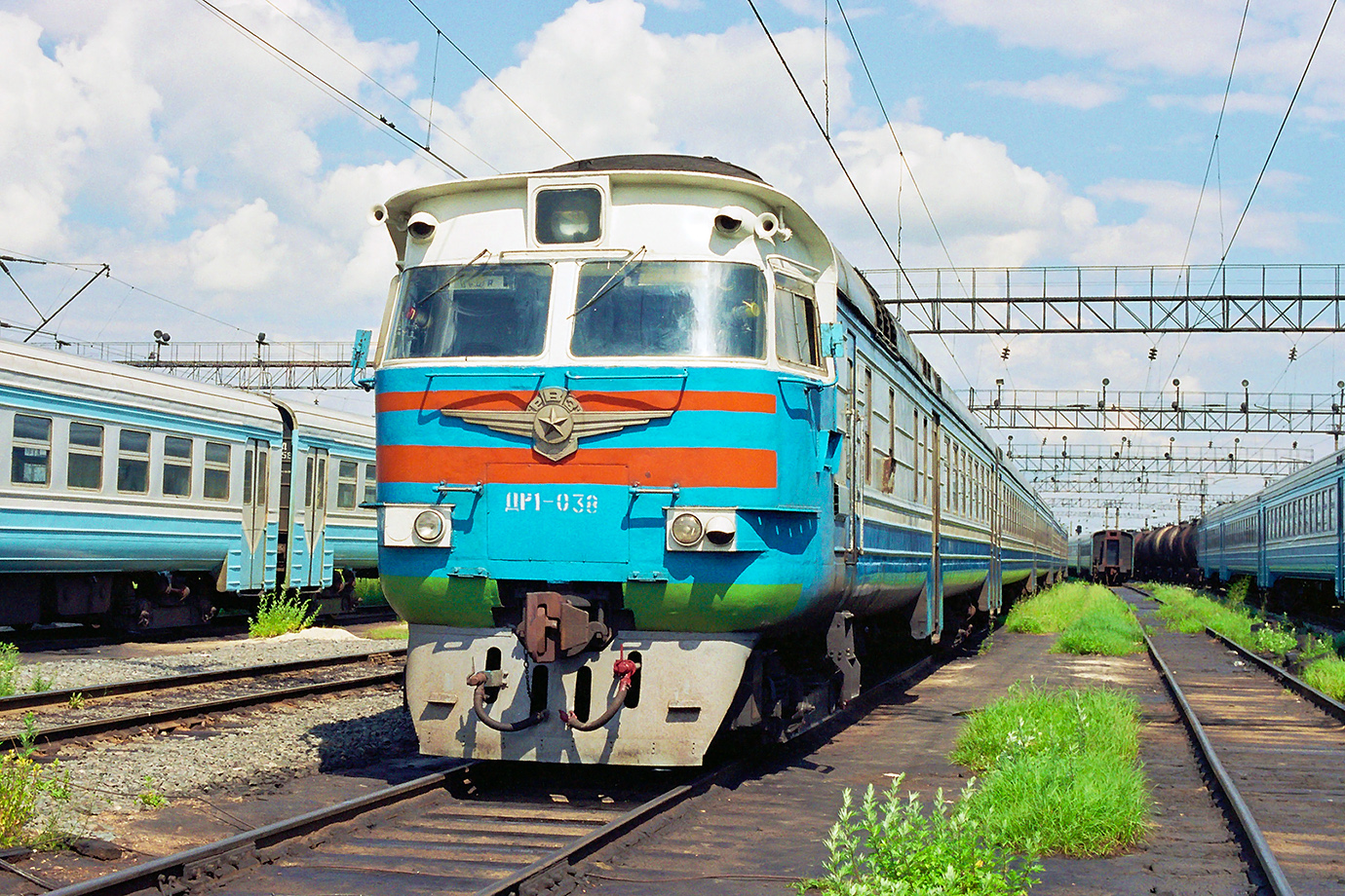 DR1-038 DMU at Orsha-Tsentralnaya station (Belarus)